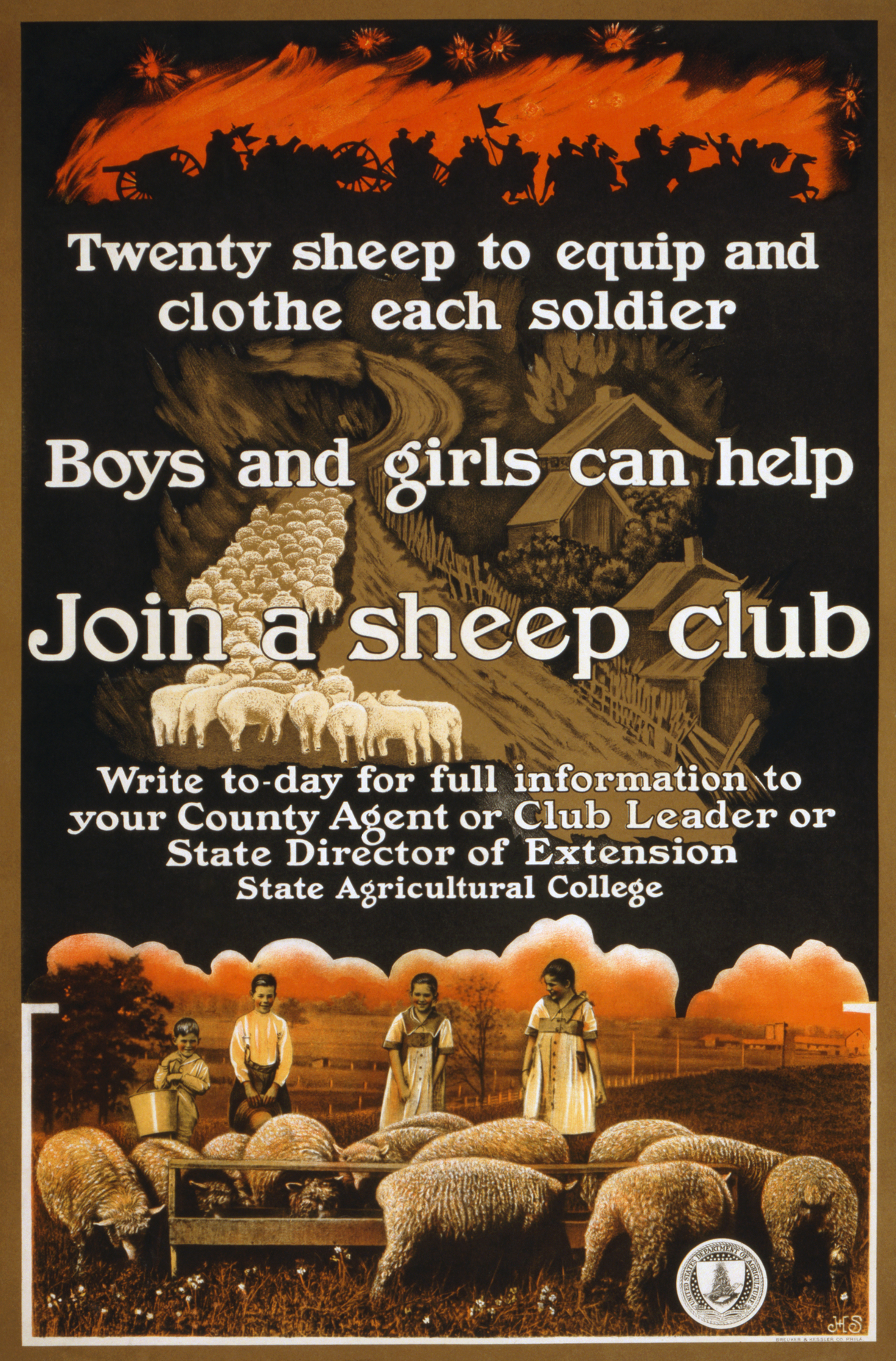 "Join a sheep club Twenty sheep to equip and clothe each soldier / HS." World War I poster from the U.S. Department of Agriculture encouraging children to raise sheep in order to provide wool for the war effort.